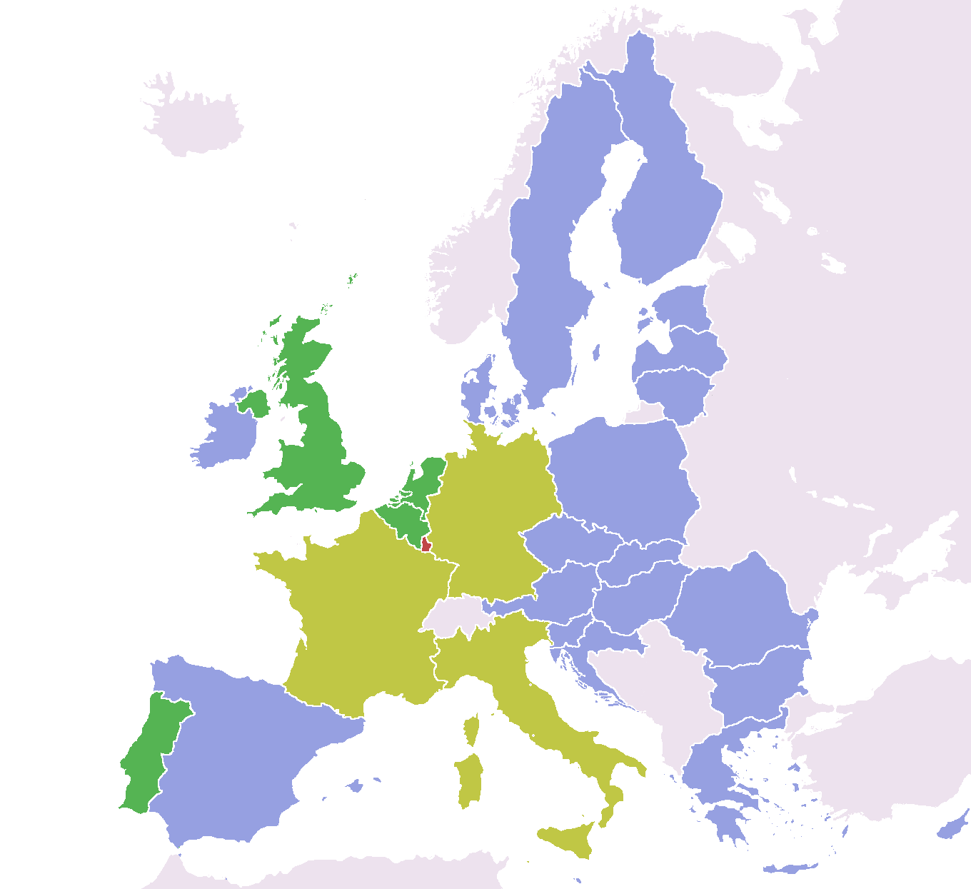 Map showing the number of Presidents of the European Commission from each EU member state. Three Two One None